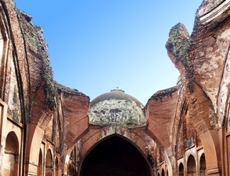 Image from the Katra Masjid Mosque destroyed